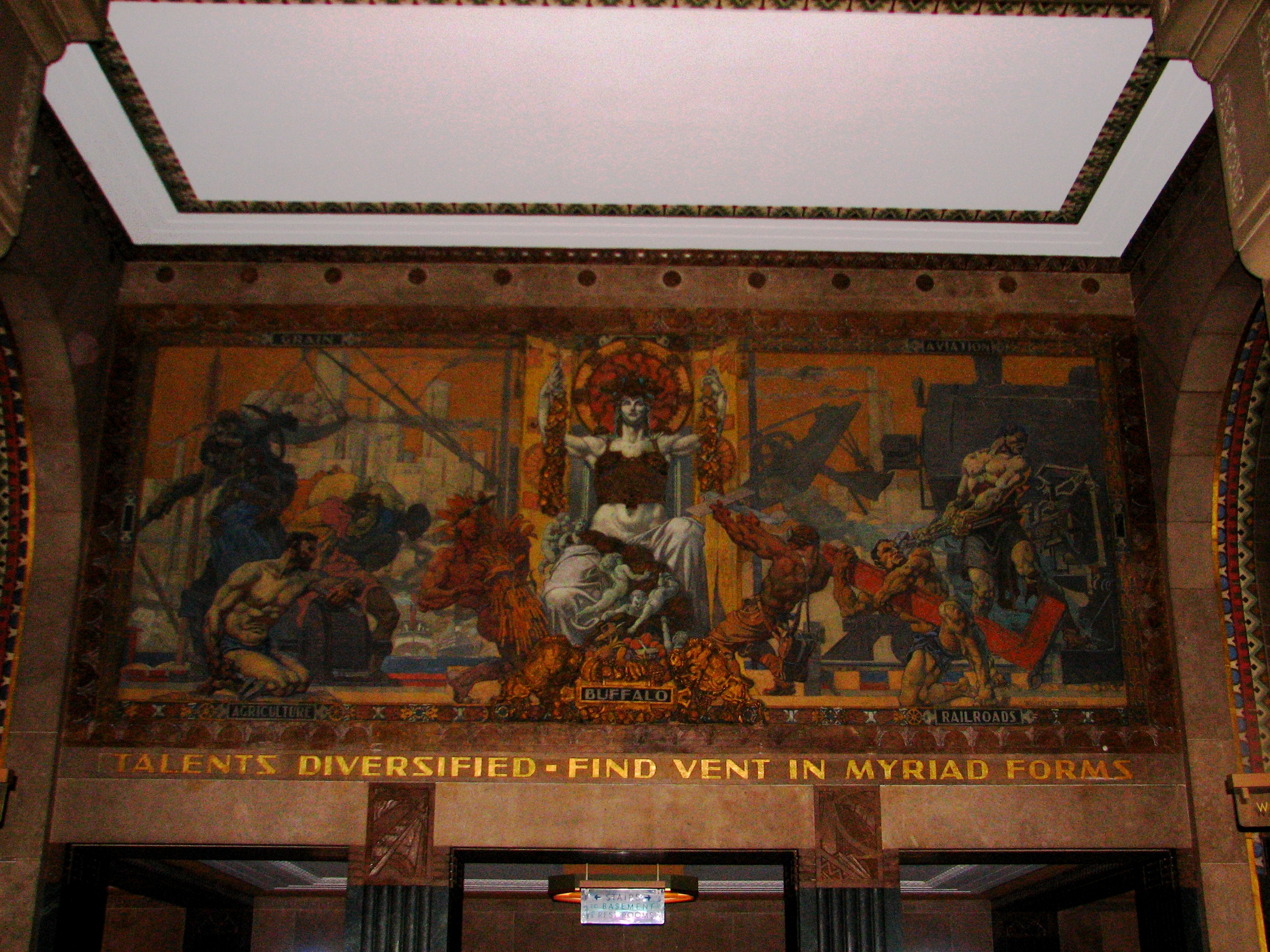 William de Leftwich Dodge mural in entrance hall of Buffalo City Hall building - Buffalo, New York.